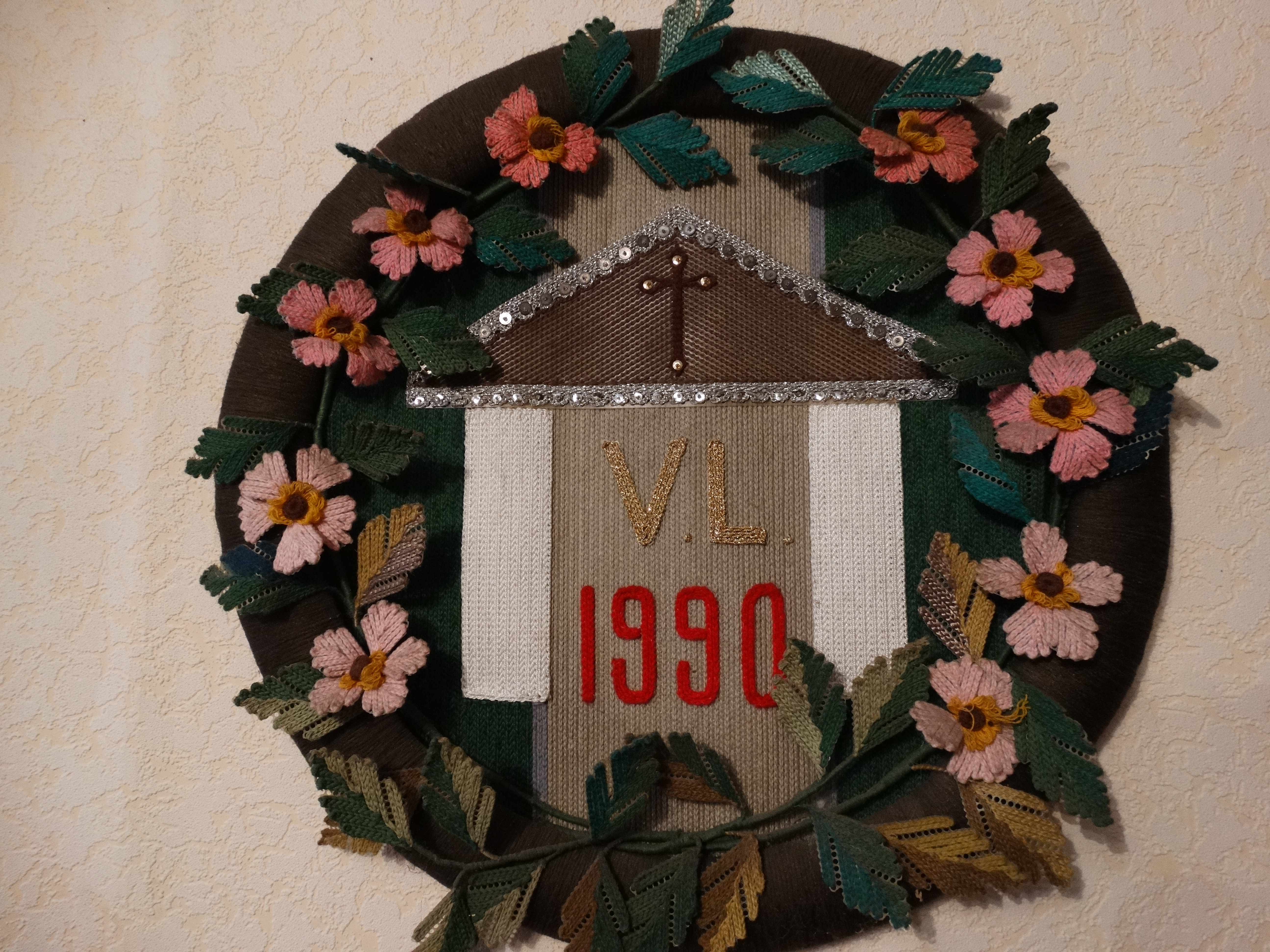 Chapel-gates, decoration, Darsūniškis, Lithuania